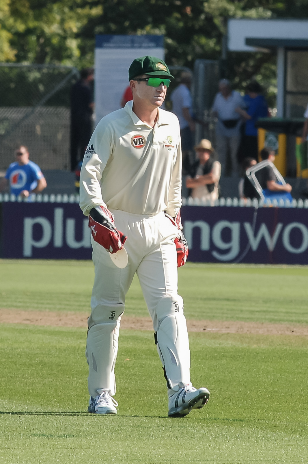 At Test Vs New Zealand at Seddon Park, Hamilton, New Zealand